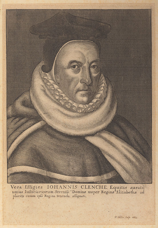 Portrait engraving by Wenceslaus Hollar of the English juge John Clench (died 1607)